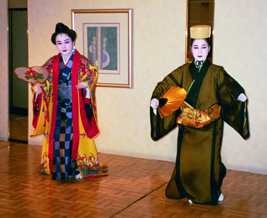 Hotel dance in Okinawa.